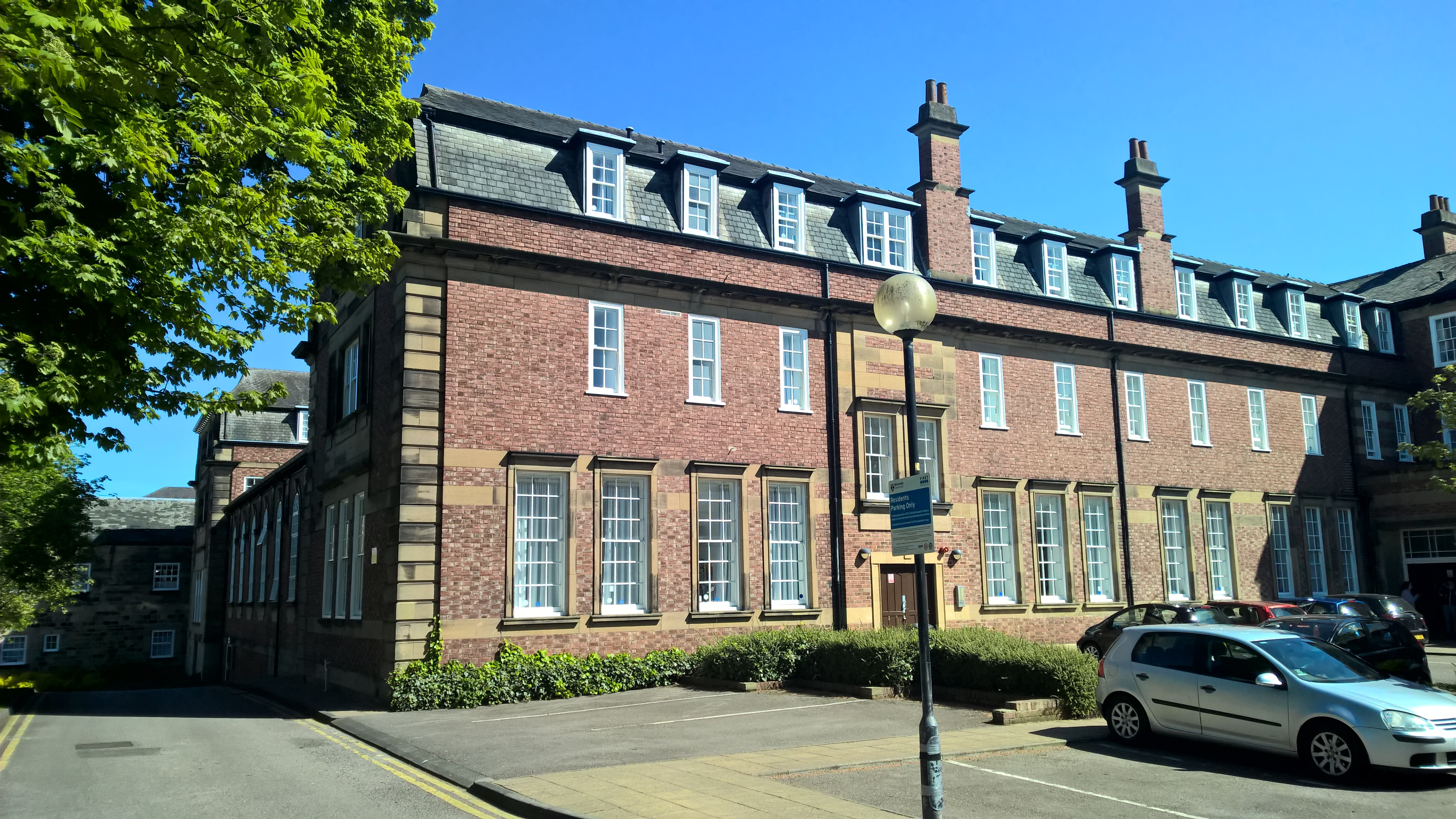 Built as an extension to Fenham Hall after its purchase by the Sacred Heart Society to serve as a Teacher Training College; 1907 by Leonard Stokes. Now student accommodation for Newcastle University. A Grade II* listed building.